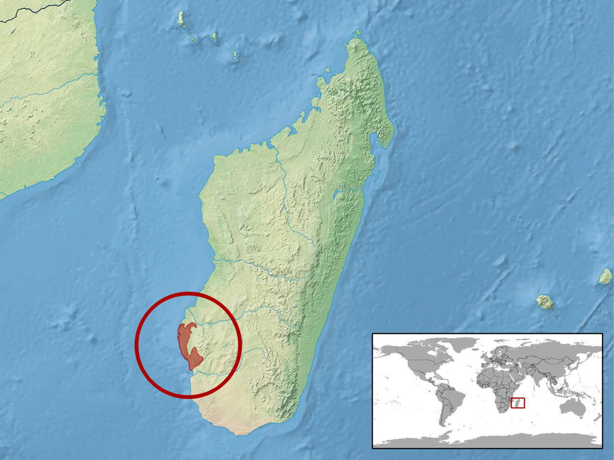 geographic distribution of Furcifer antimena (Native: Madagascar)